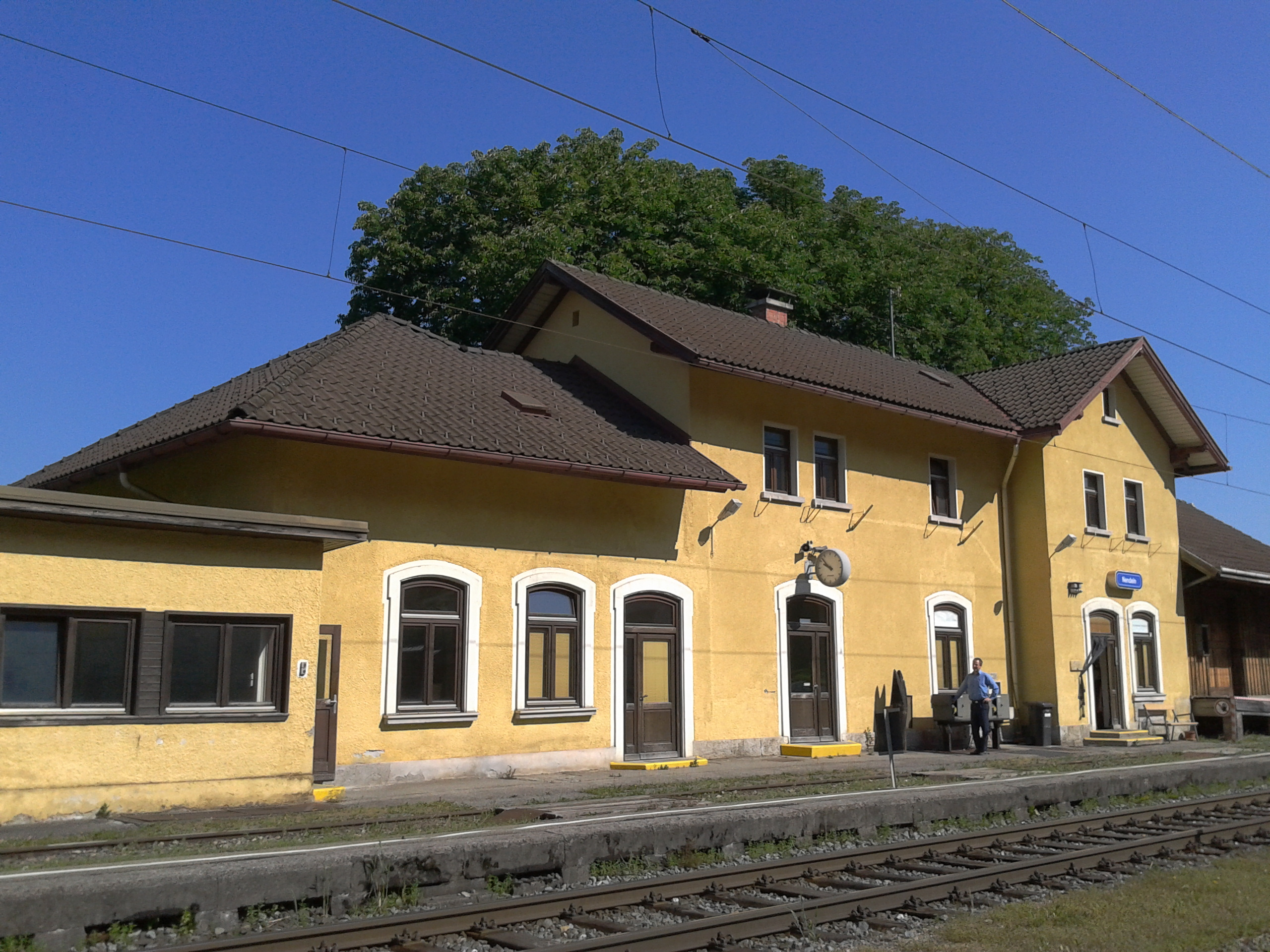 Railwaystation Nendeln in the Principality of Liechtenstein (from the South)